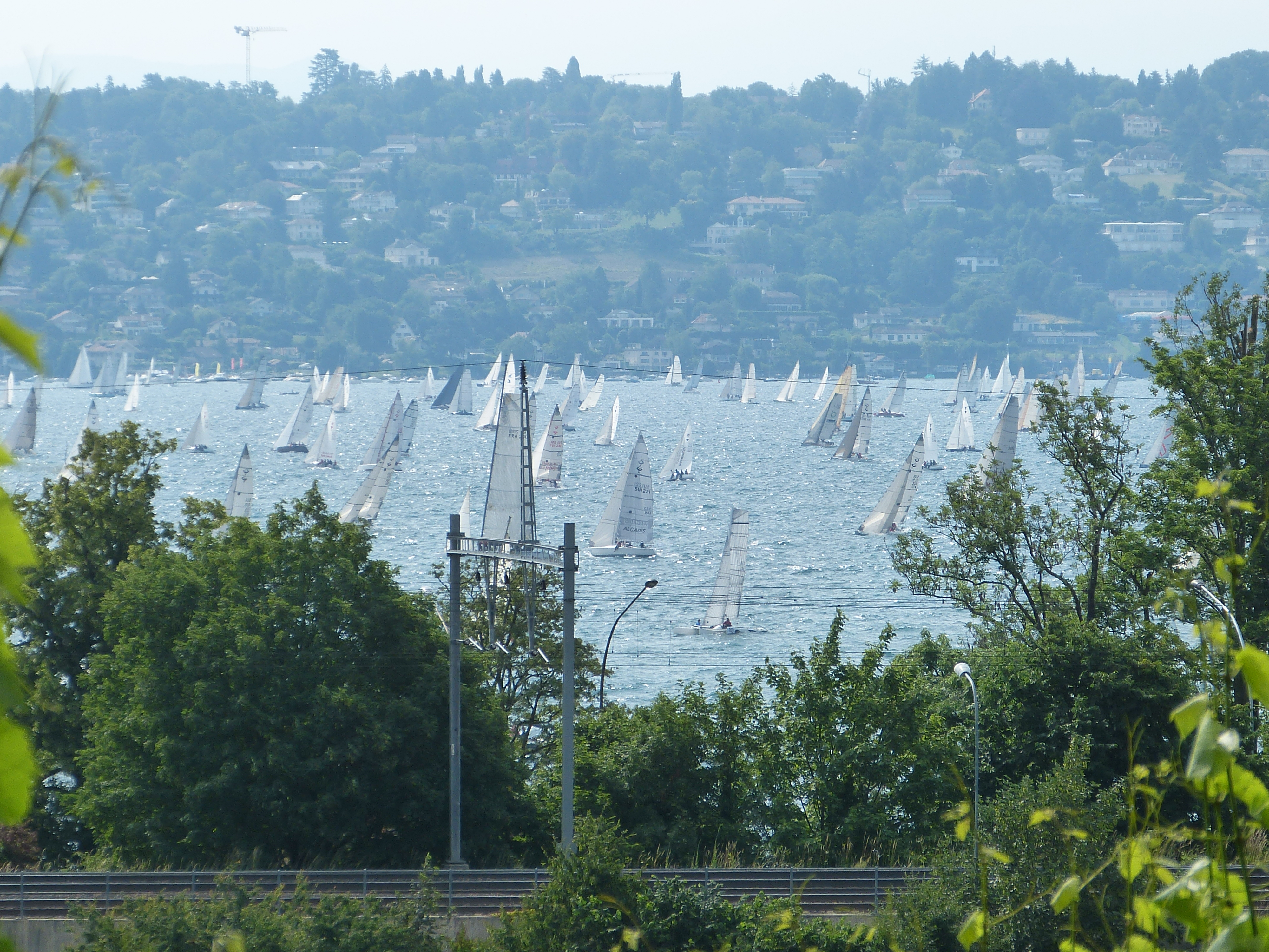 Start of the Bol d'Or yacht race on Lake Geneva, as seen from Genthod.